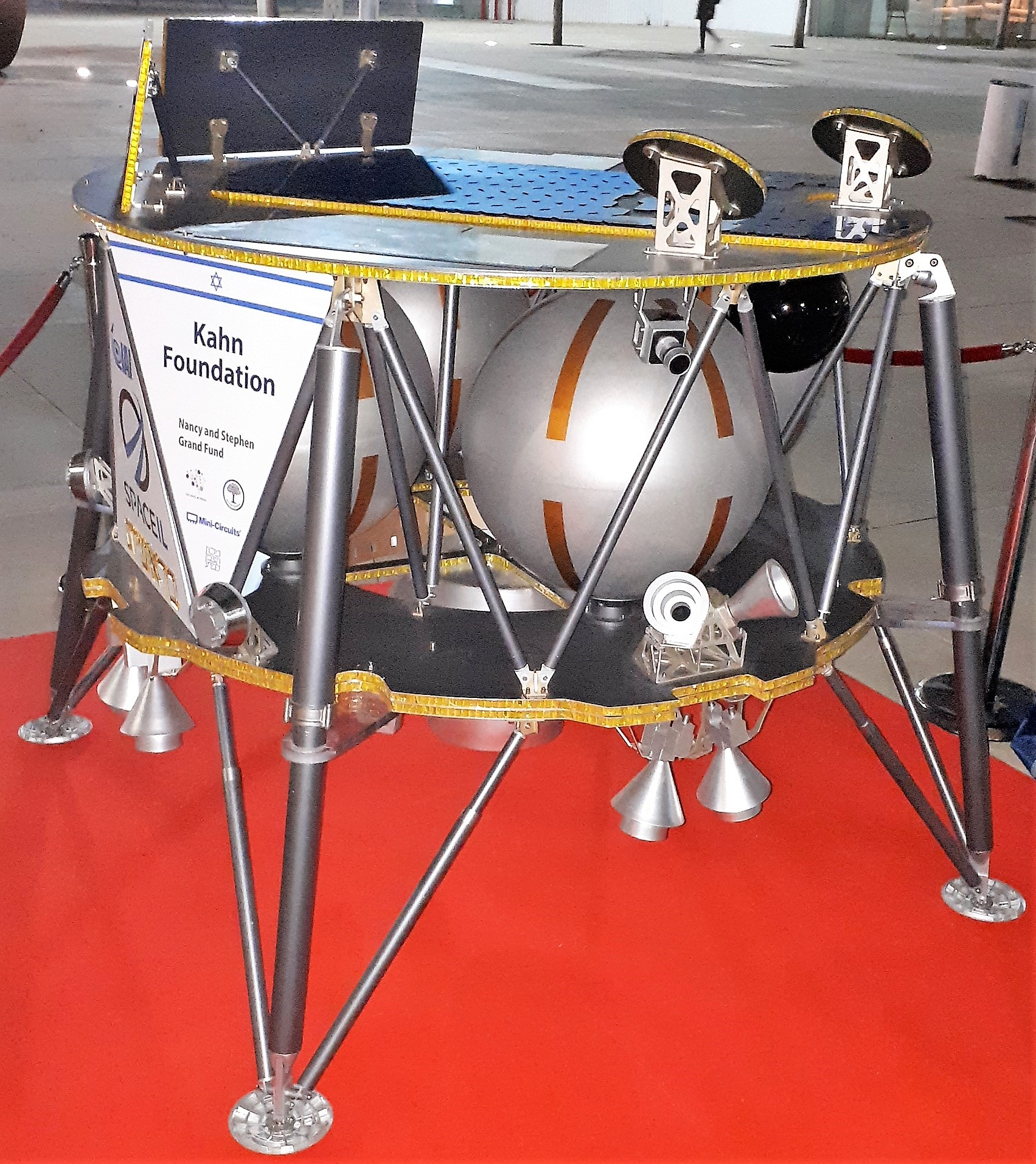 A full scale model of Beresheet moon probe, presented at Habima Square (Tel aviv). Photo taken on the day of its launch.